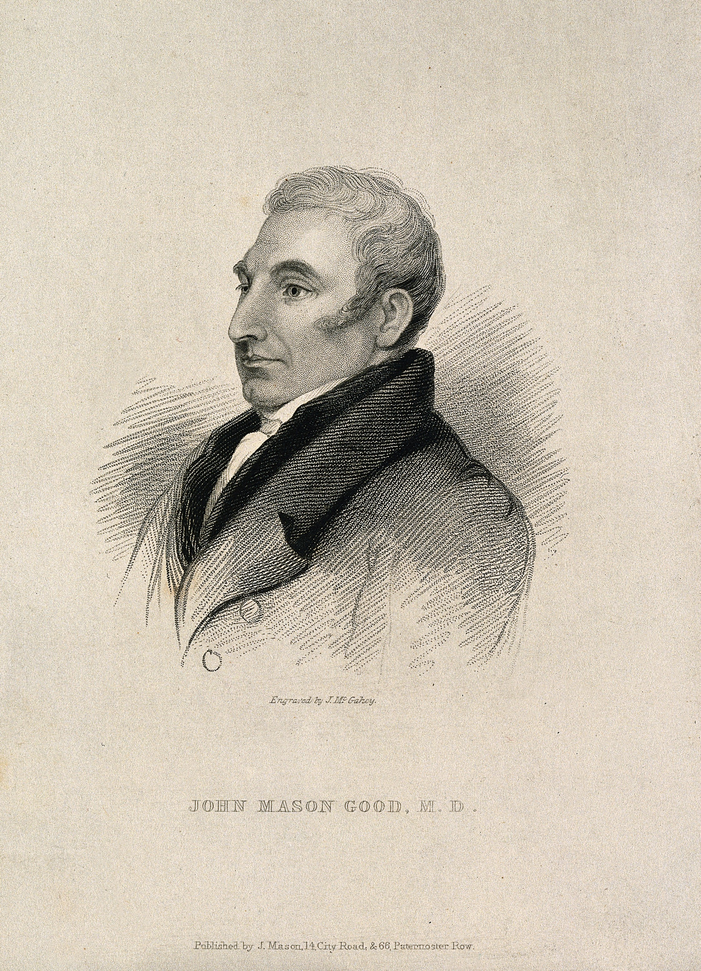 John Mason Good. Stipple engraving by J. McGahey after Rev. W. Russell. Iconographic Collections Keywords: portrait prints; stipple prints; John Mason Good